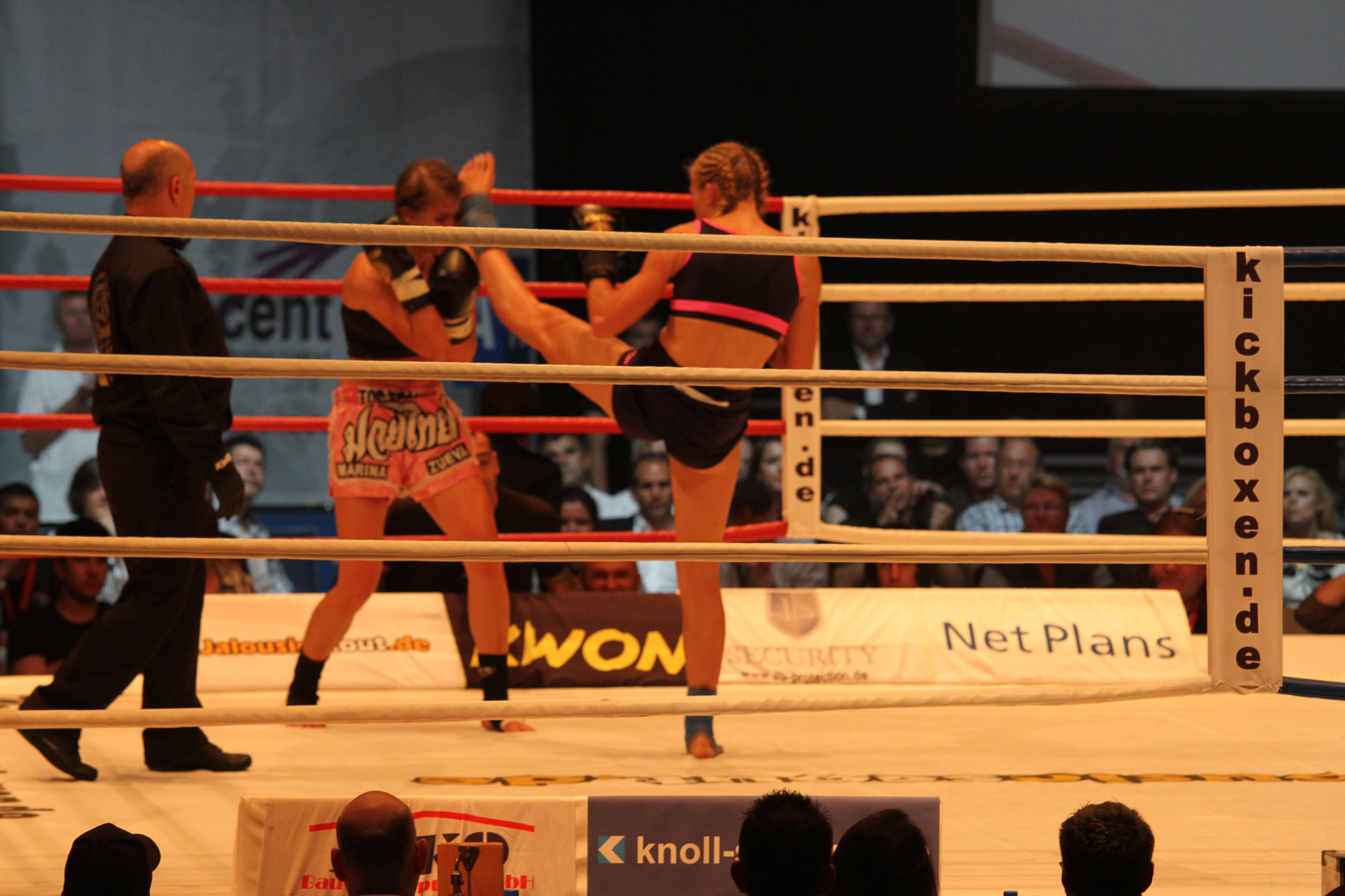 Axe-Kick from Christine Theiss WKA world Championship 2011 in Germany/ Karlsruhe